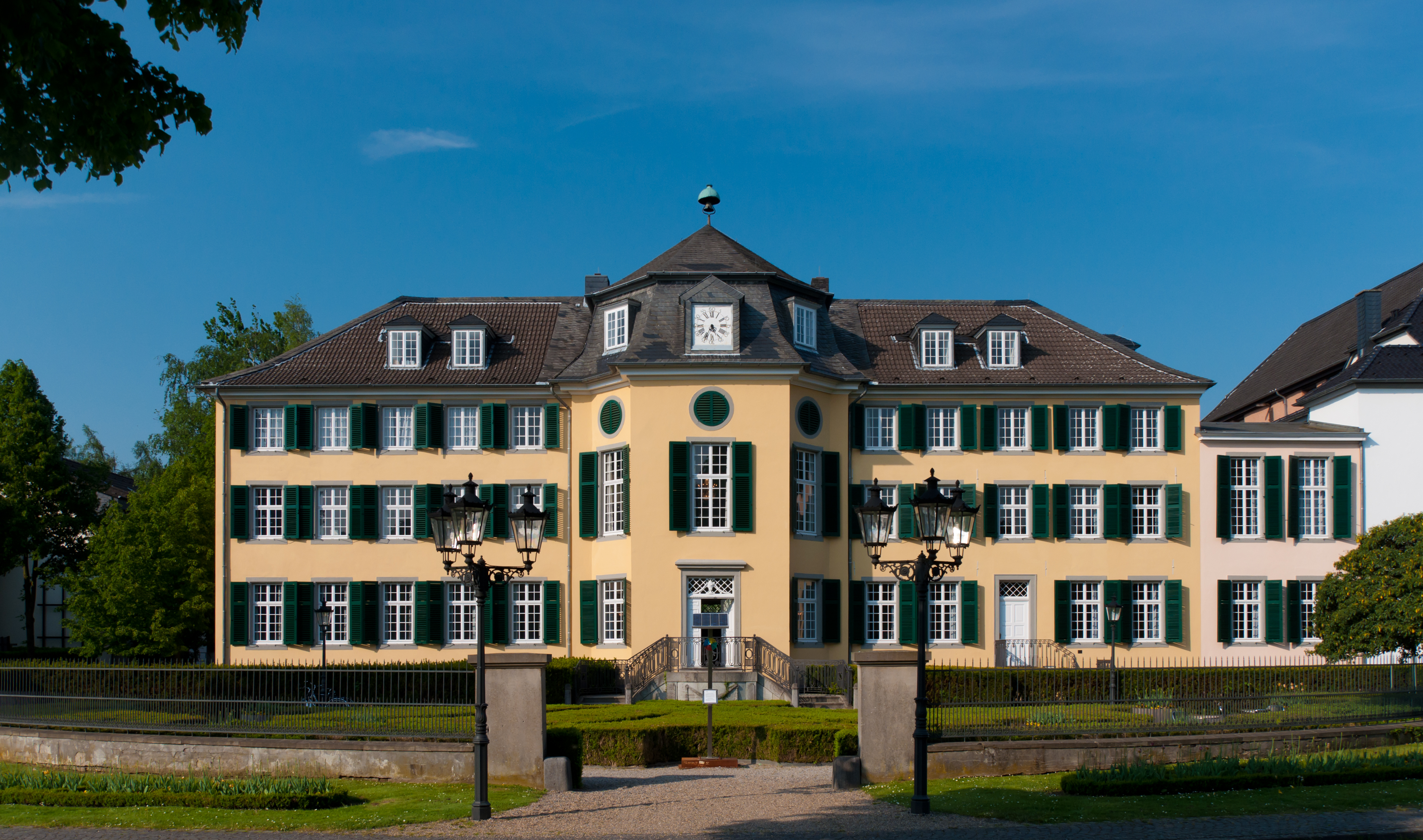 Manor house of the Cromford cloth factory in Ratingen, former home of its founder Johann Gottfried Brügelmann